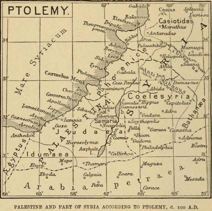 Ptolemy's description of Palestine, by Claude R Conder, 1889